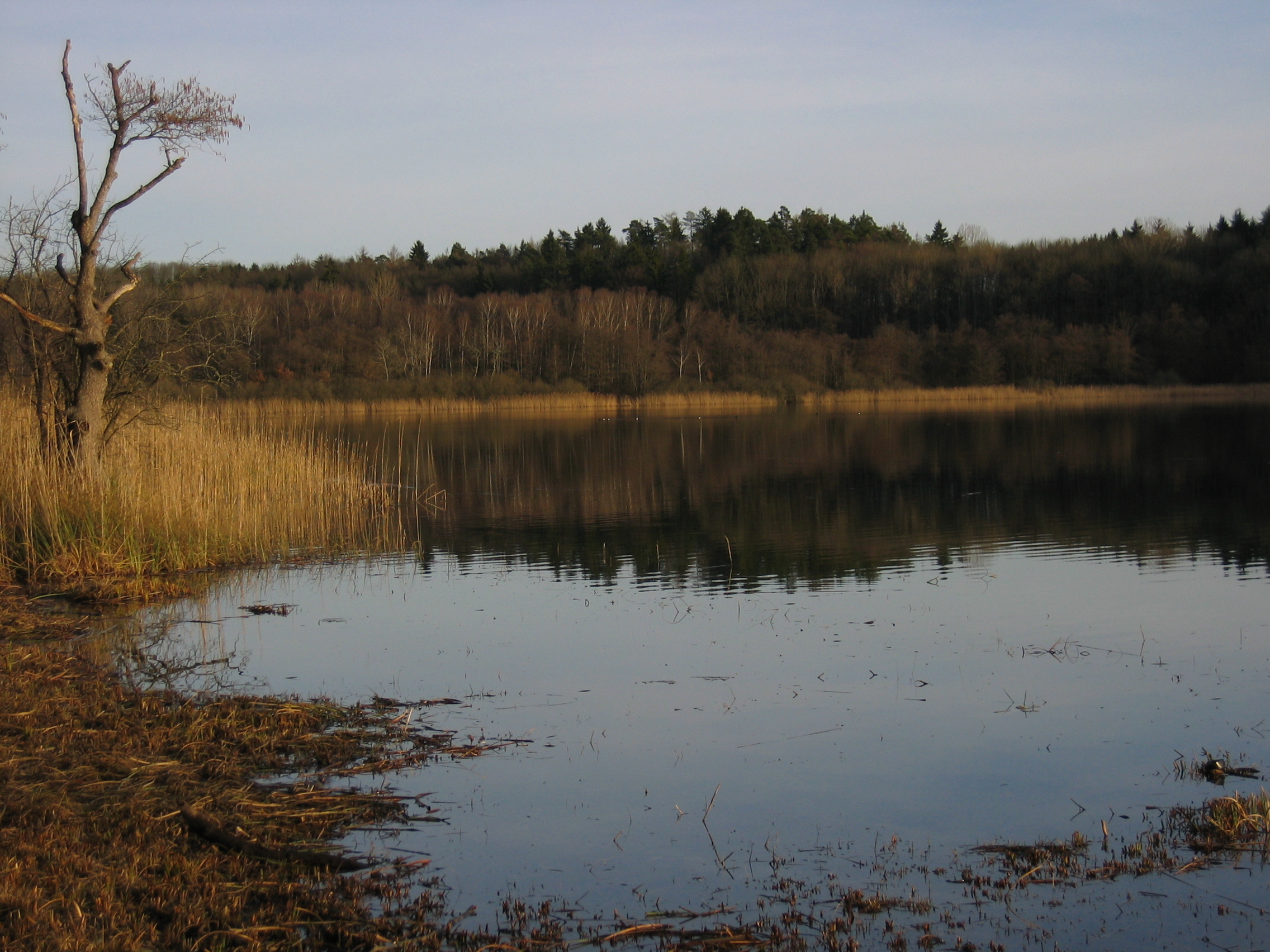 DEU_reserved area_Mindelsee_eastern section